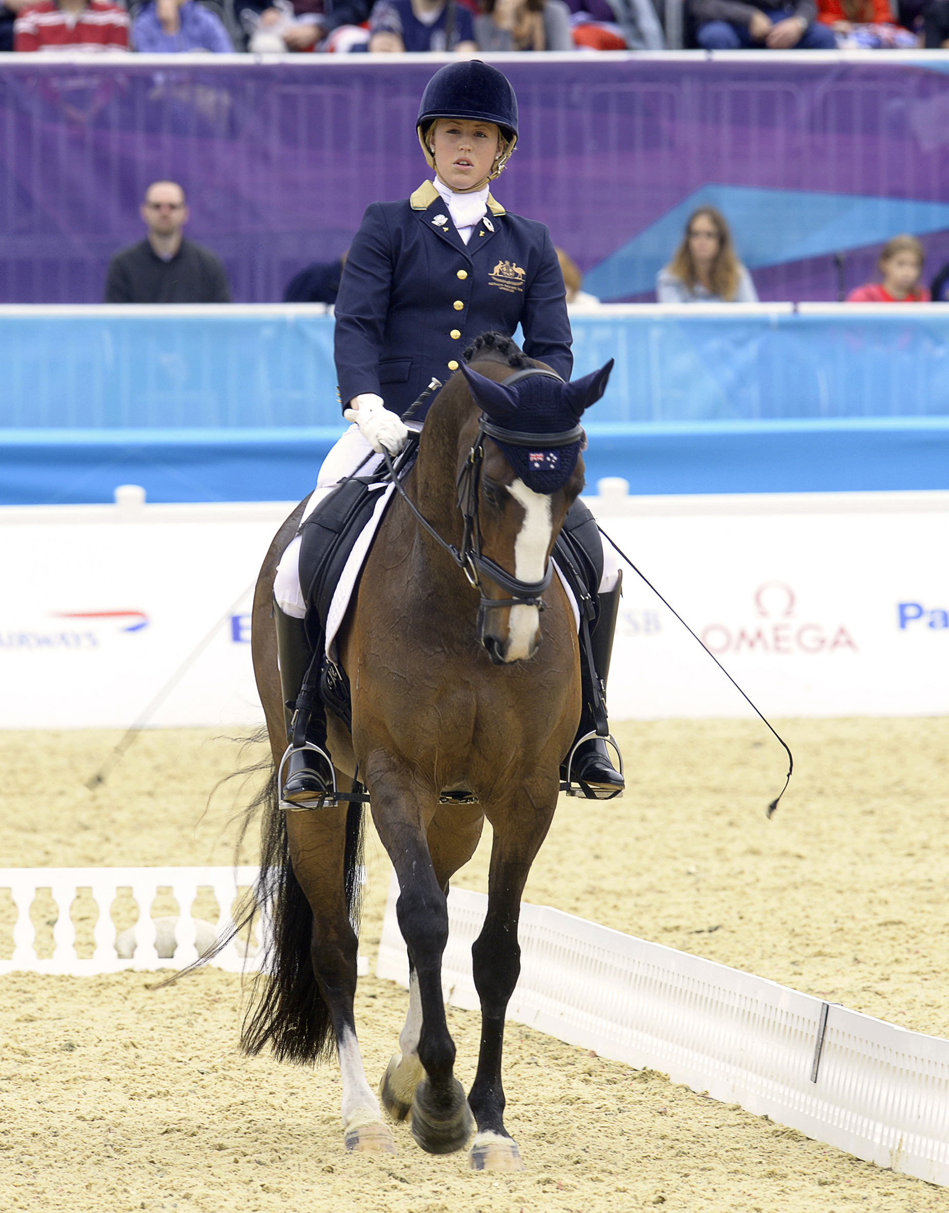 Photograph of Australian Paralympic team member Grace Bowman at the 2012 Summer Paralympics in London